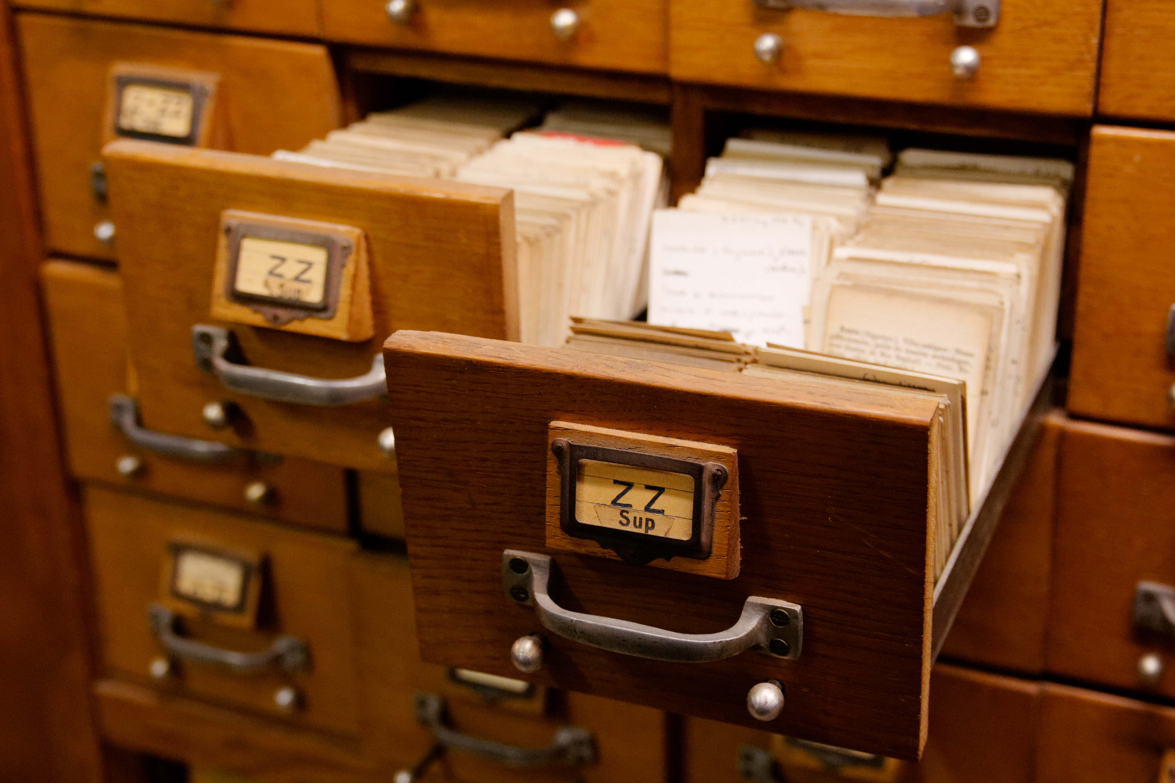 Card file cabinet, restricted section, Bibliothèque Sainte-Geneviève, Paris.